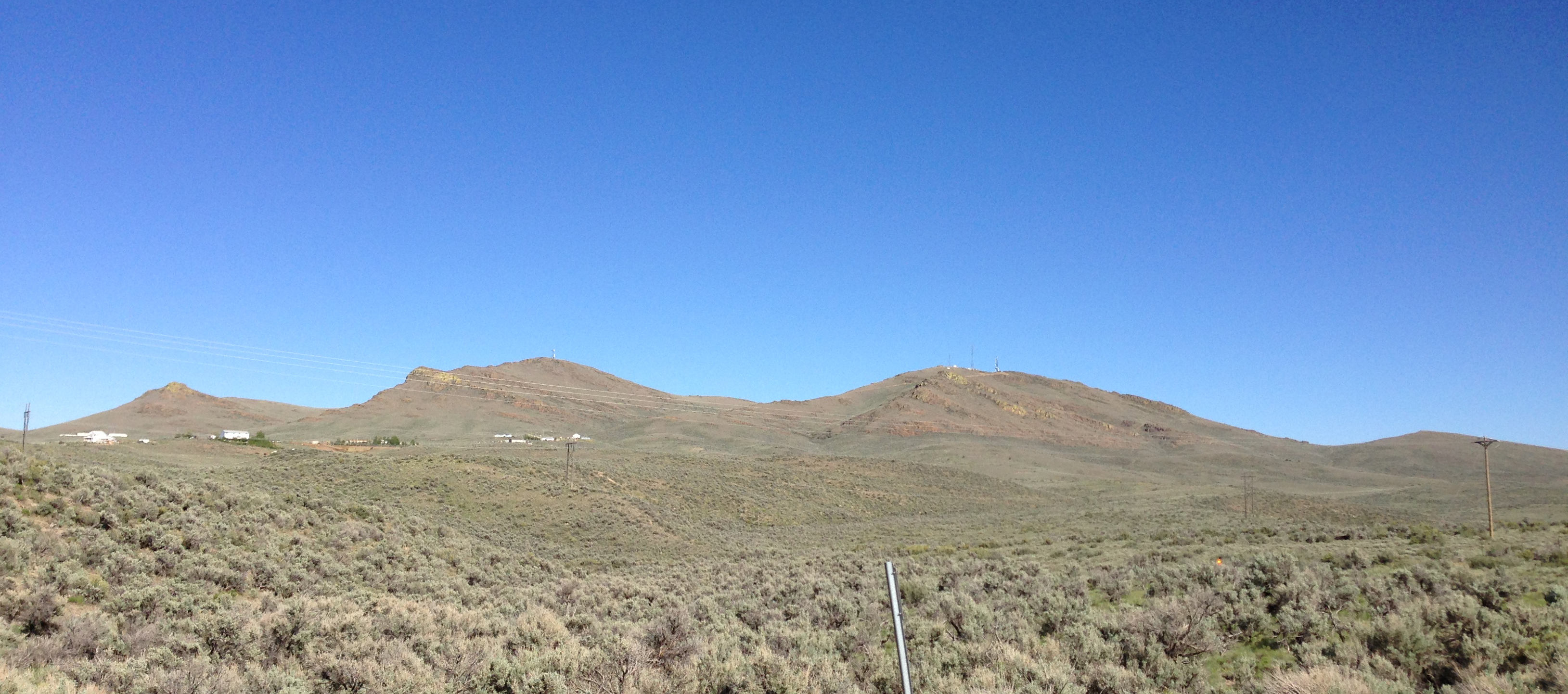 View of Twin Peaks in the Adobe Range from Nevada State Route 225 (Mountain City Highway) northwest of Elko, Nevada